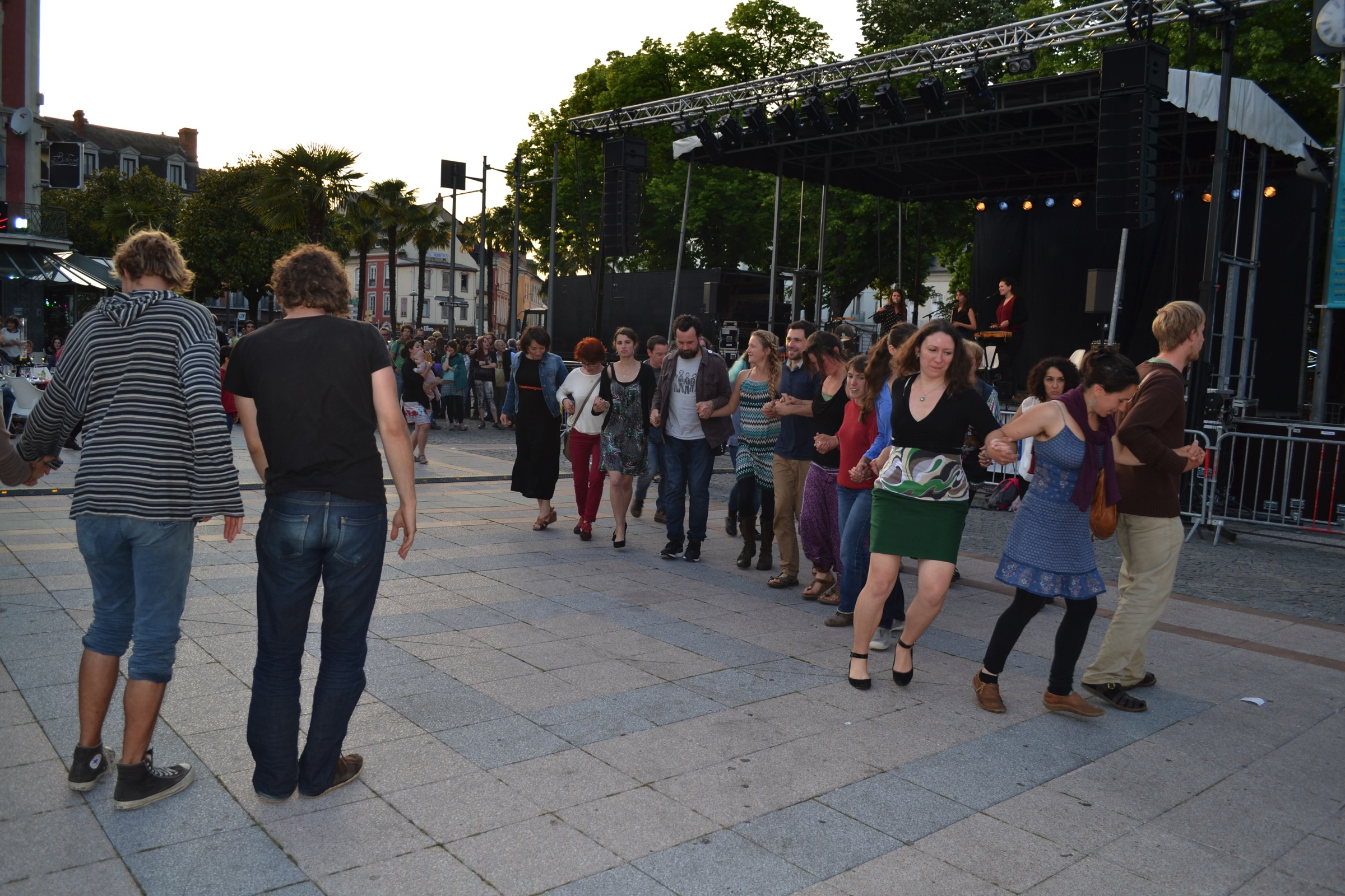 Cocanha, polyphonic band, during Tarba en Canta 2016 in Tarbes.